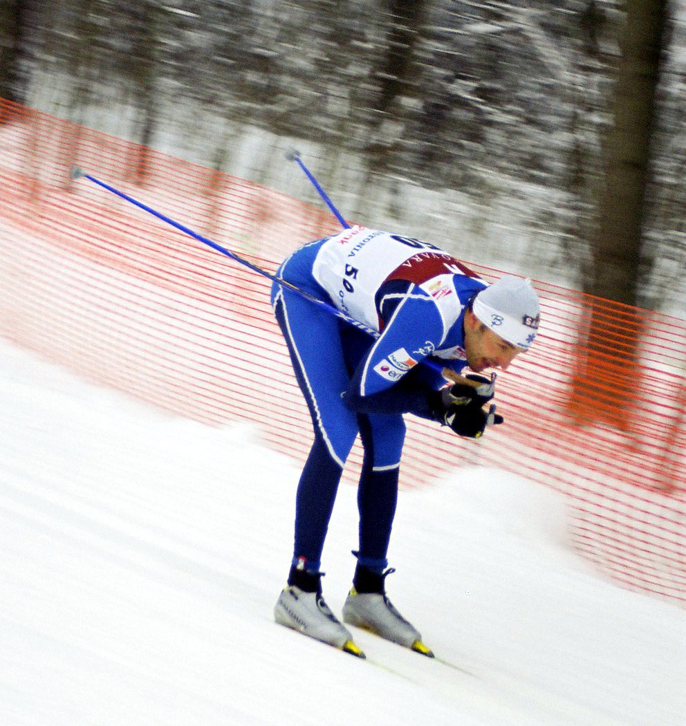 Andrus Veerpalu FIS World Cup Cross Country - January 7-8 2006 in Otepää, Estonia Men's 15k Classic XC